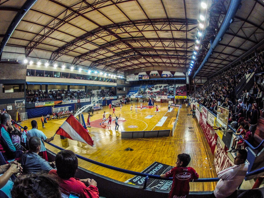 Estadio Cubierto Angel Malvicino - Club Atlético Unión de Santa Fe